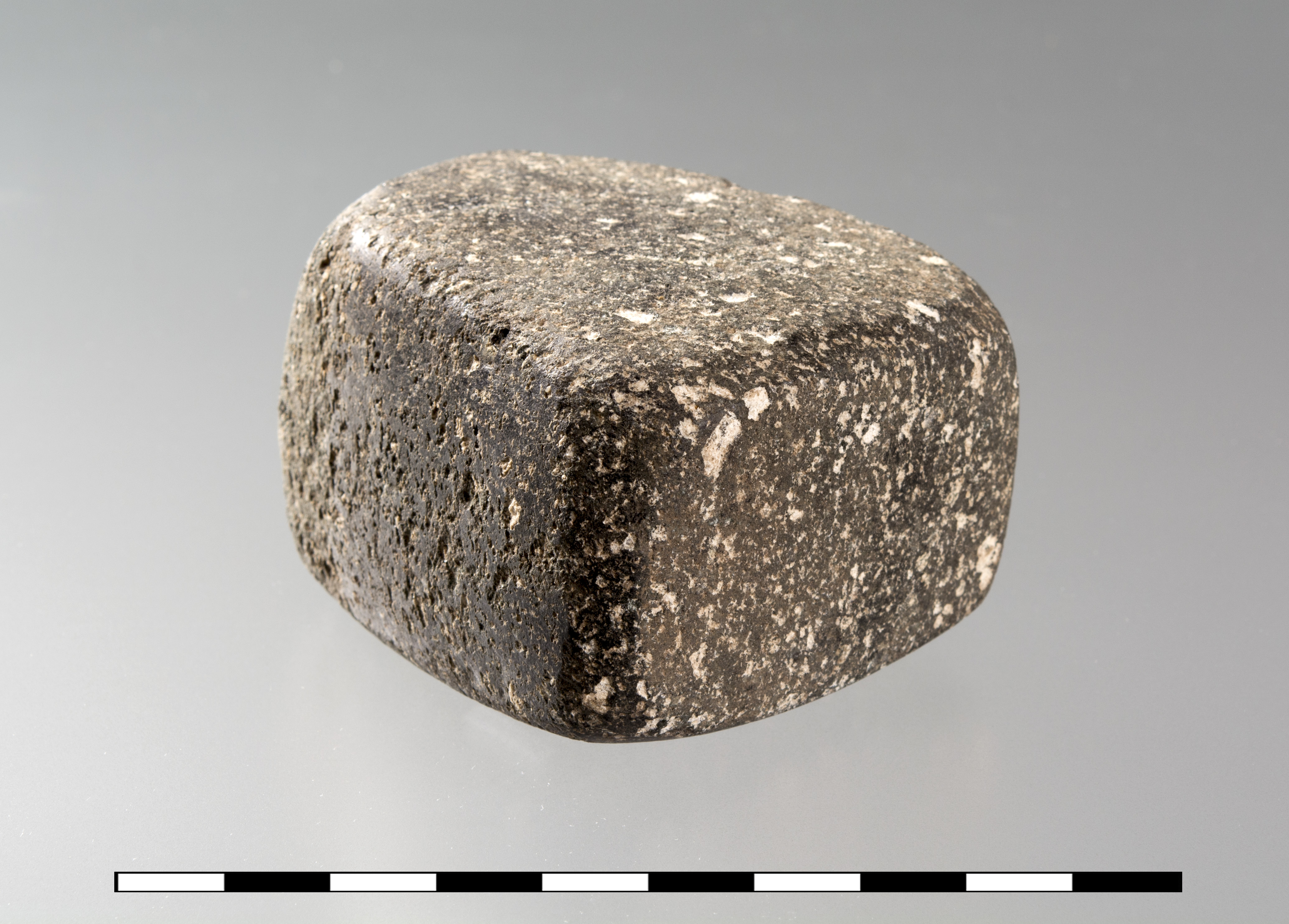 This faceted cushion stone is from the Late Neolithic B and of diabase/dolerite. All six sides are smooth-polished, originally probably highly polished. There are gold and copper tracks on/to the surface. PDB.2011.40.BROT2.07.9.1